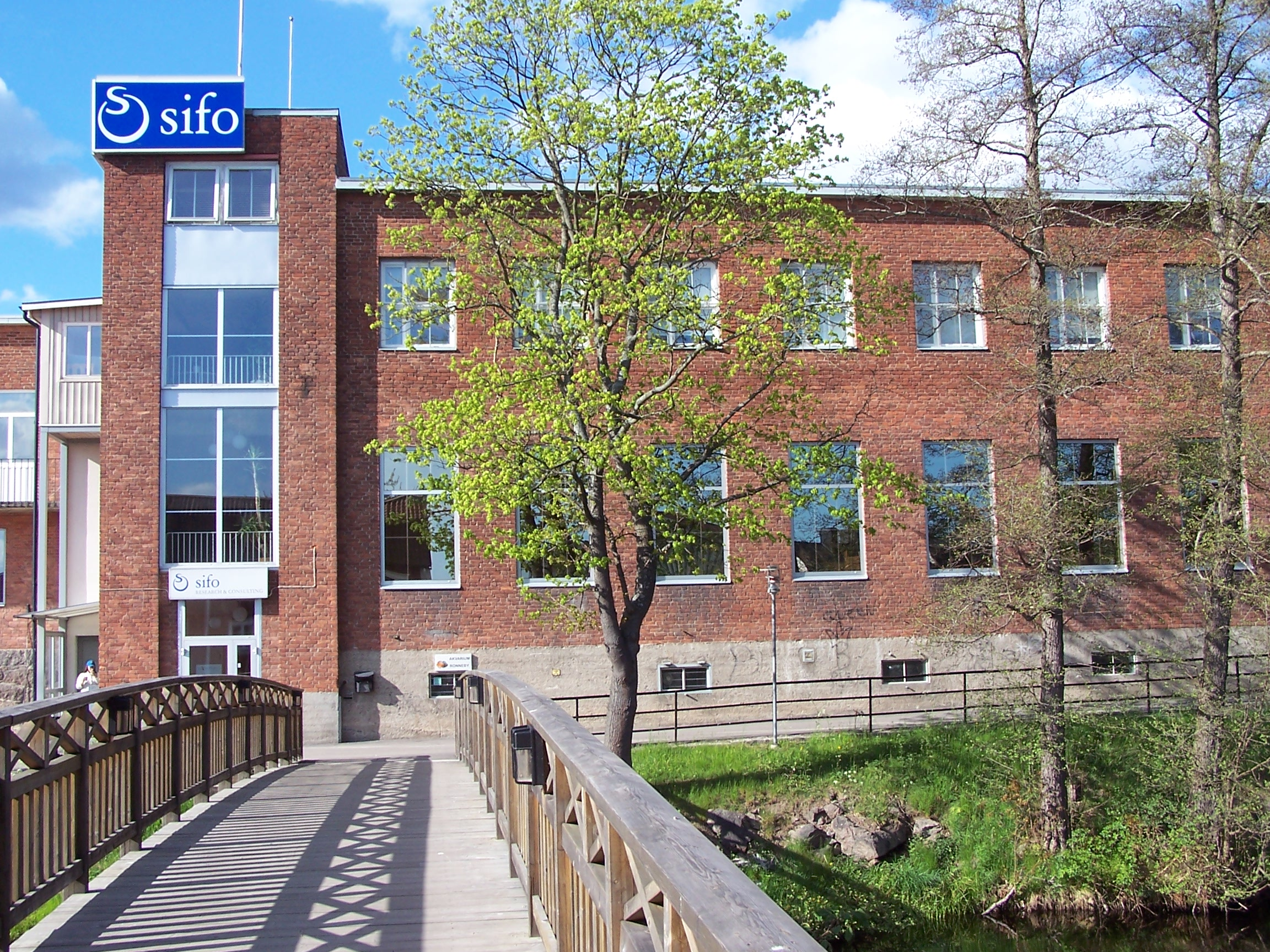 SIFO (swedish division of Research Internatioal), callcenter in Ronneby.